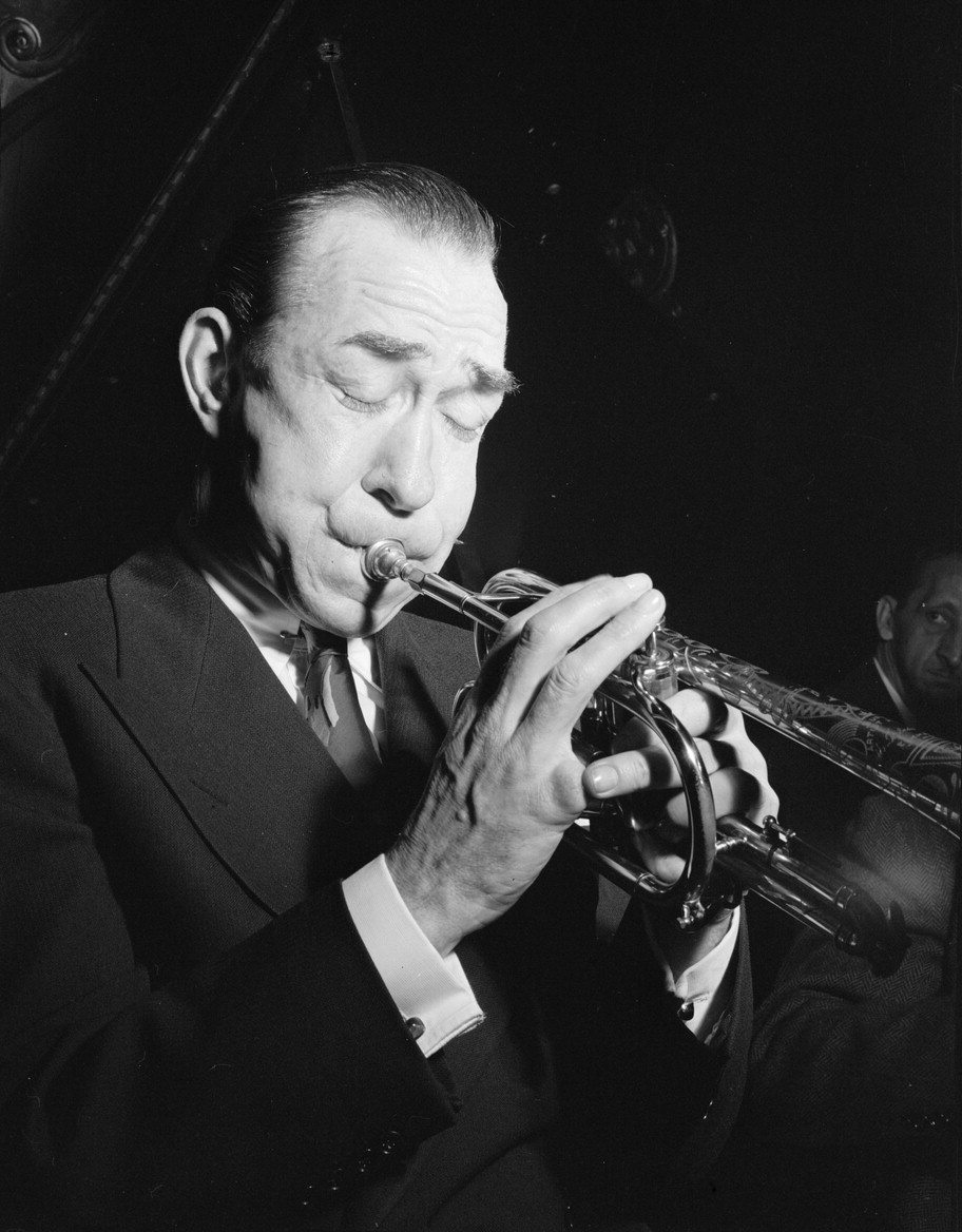 Francis Joseph Julian "Muggsy" Spanier (November 9, 1906 – February 12, 1967) was a prominent white cornet player based in Chicago. He was renowned as the best trumpet/cornet in Chicago until Bix Beiderbecke entered the scene. Gottlieb, William P., 1917-, photographer. [Portrait of Muggsy Spanier, Nick's (Tavern), New York, N.Y., ca. June 1946] 1 negative : b&w ; 3 1/4 x 4 1/4 in. Notes: Gottlieb Collection Assignment No. 430 Reference print available in Music Division, Library of Congress. Purchase William P. Gottlieb Forms part of: William P. Gottlieb Collection (Library of Congress). In: The Record Changer, v. 5, no. 4 (June 46, 1946), p. 11. Subjects: Spanier, Muggsy, 1906-1967 Jazz musicians--1940-1950. Cornet players--1940-1950. Nick's (Tavern) Format: Portrait photographs--1940-1950. Film negatives--1940-1950. Rights Info: Mr. Gottlieb has dedicated these works to the public domain, but rights of privacy and publicity may apply. Repository: (negative) Library of Congress, Prints & Photographs Division, Washington D.C. 20540 USA, (reference print) Library of Congress, Music Division, Washington D.C. 20540 USA, Part Of: William P. Gottlieb Collection (DLC) 99-401005 General information about the Gottlieb Collection is available at Persistent URL: Call Number: LC-GLB13- 0801